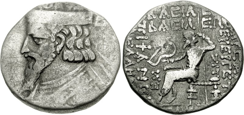 Coin of Orodes III.